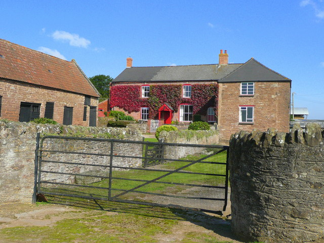 Pen-allt Farmhouse A fine stone building with a well-coloured creeper.